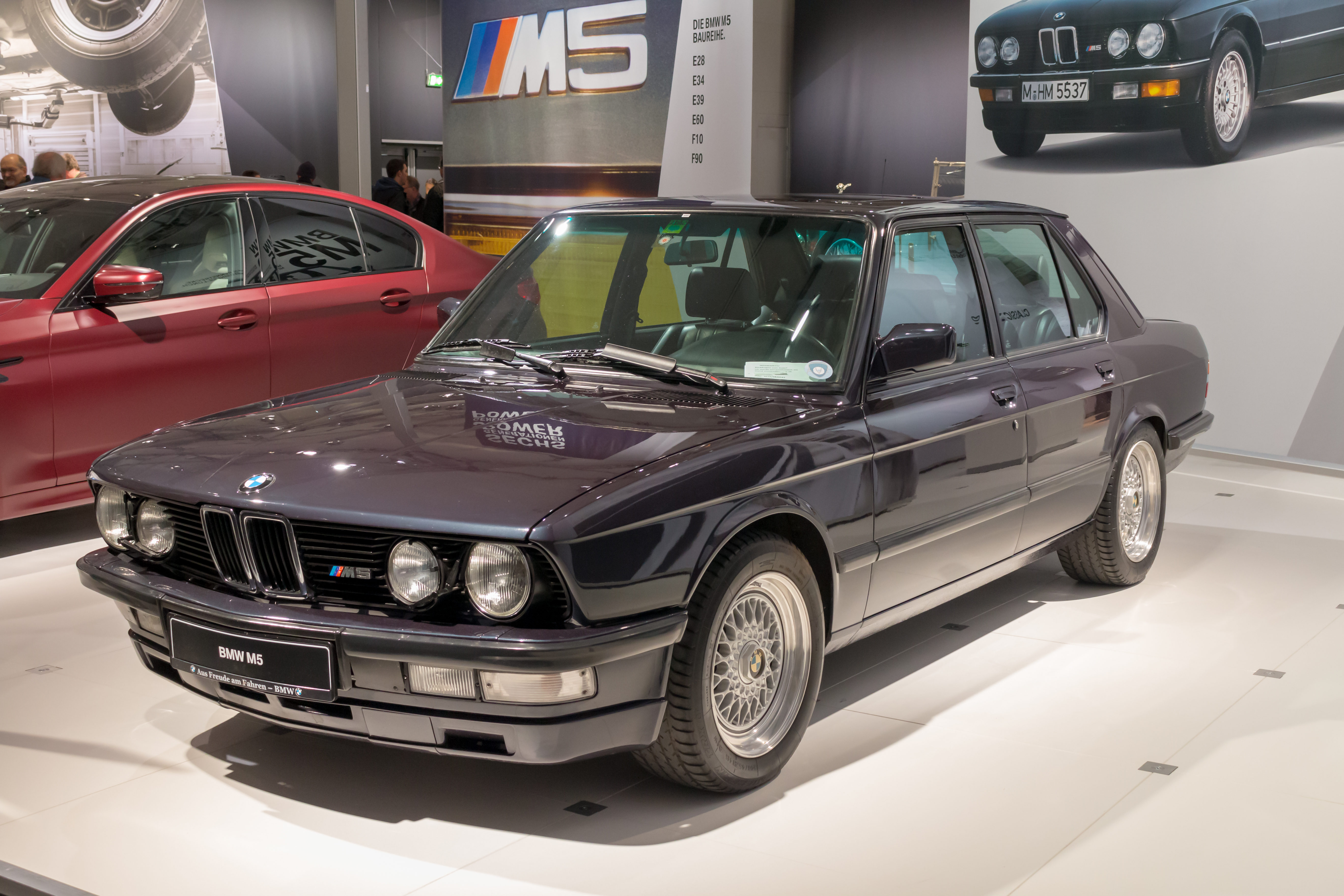 Techno Classica 2018, Essen